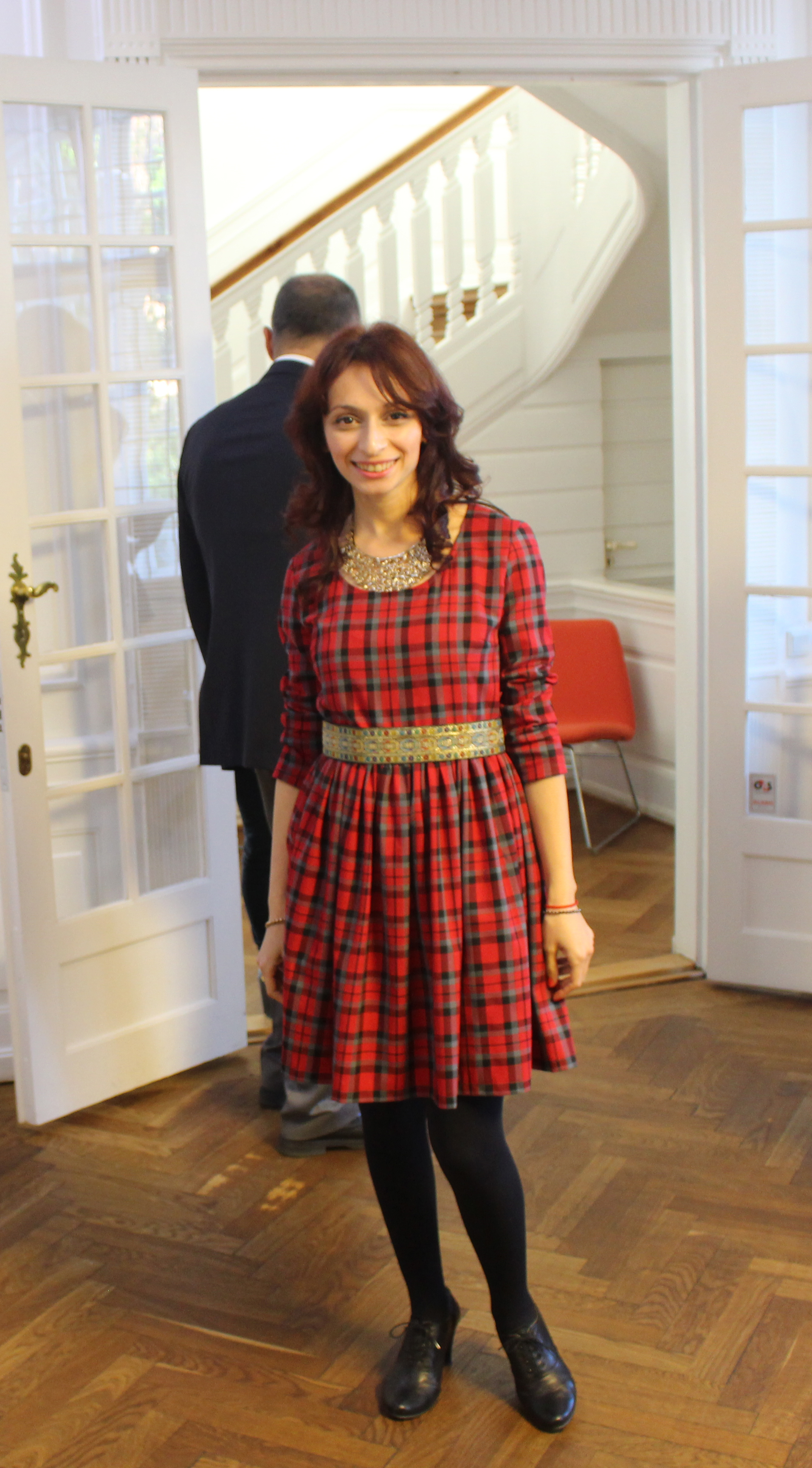 Margarita Matoulyan